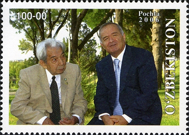 Stamps of Uzbekistan, 2006